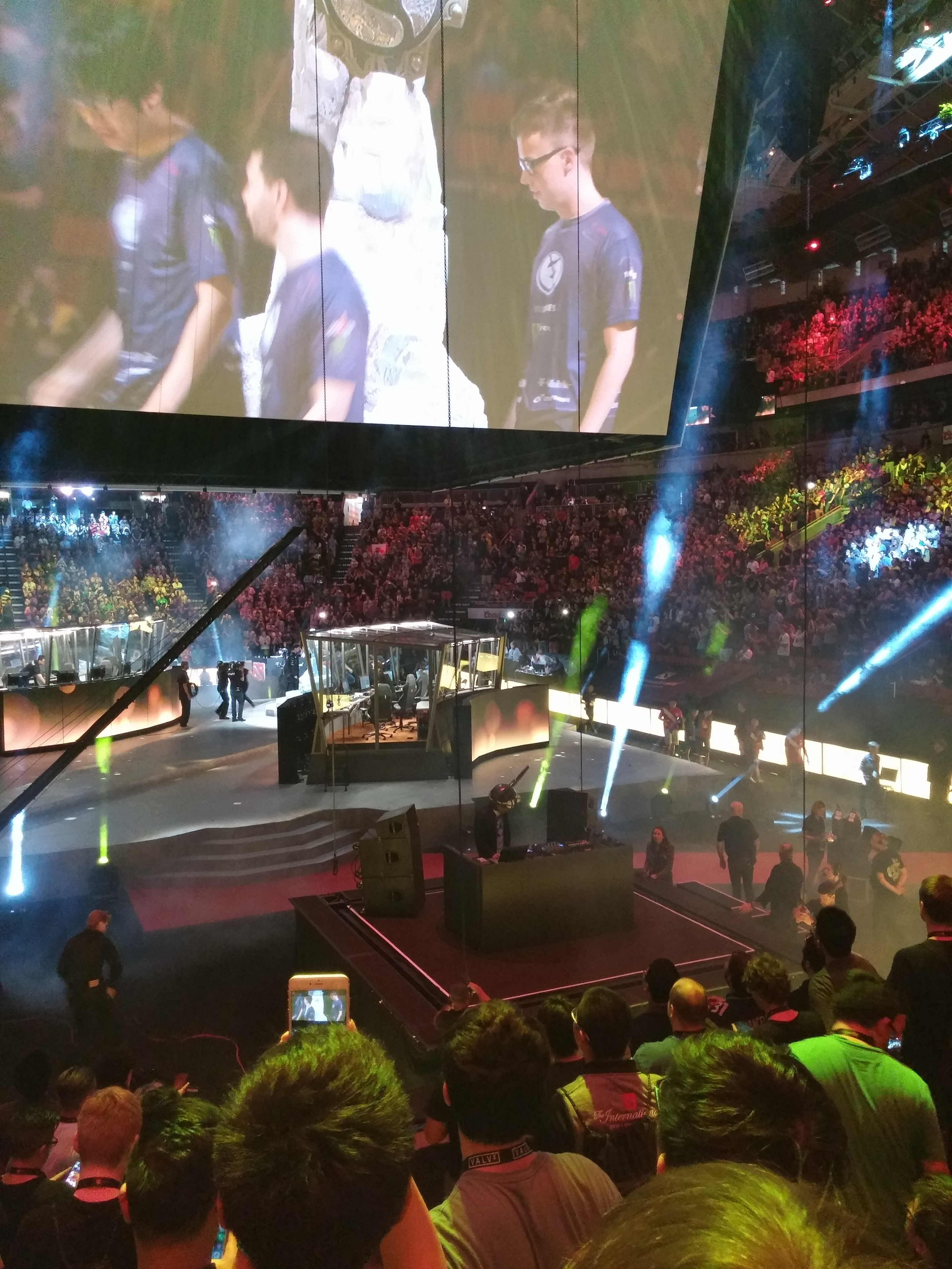 The International 5 Dota 2 at Key Arena, Afterparty at the Emp